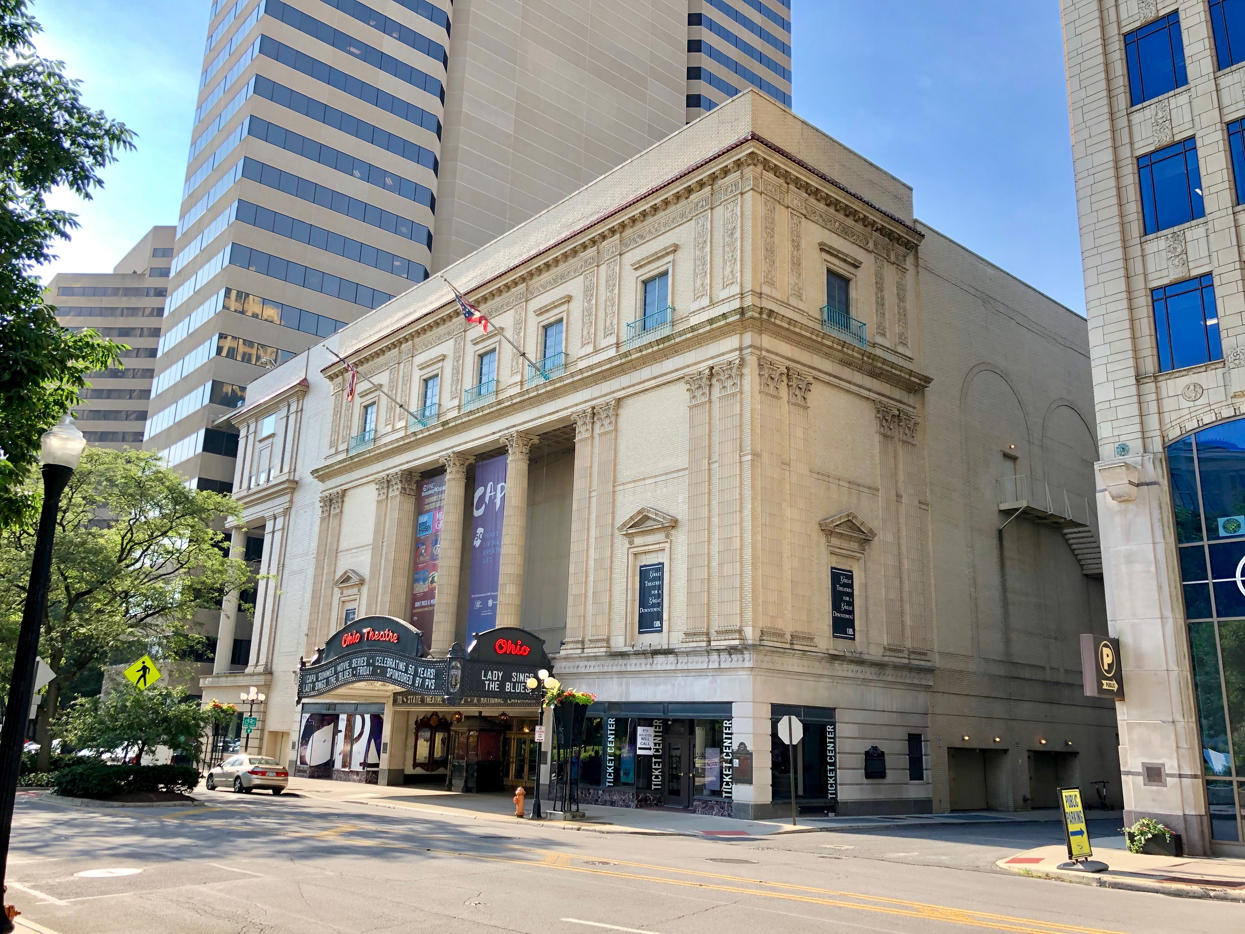 Photo taken by Warren LeMay (User:W lemay) of Columbus, Ohio. Likely requires further categorization.